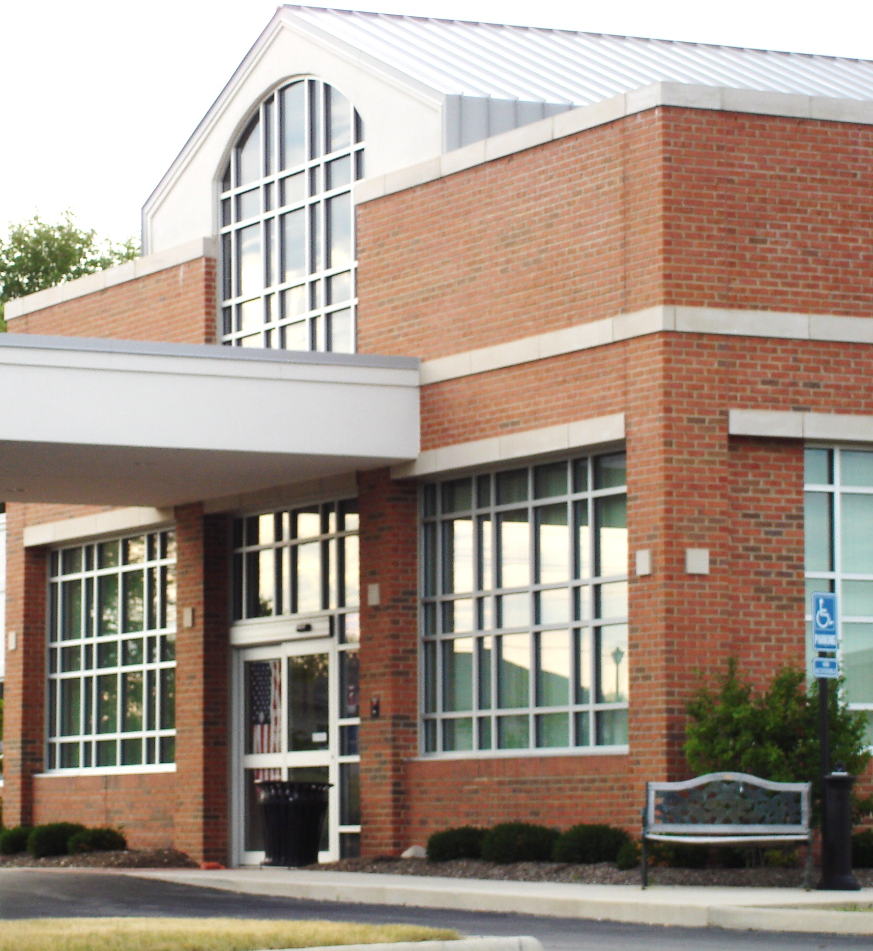 Marysville Surgical Center, Marysville, Ohio, United States